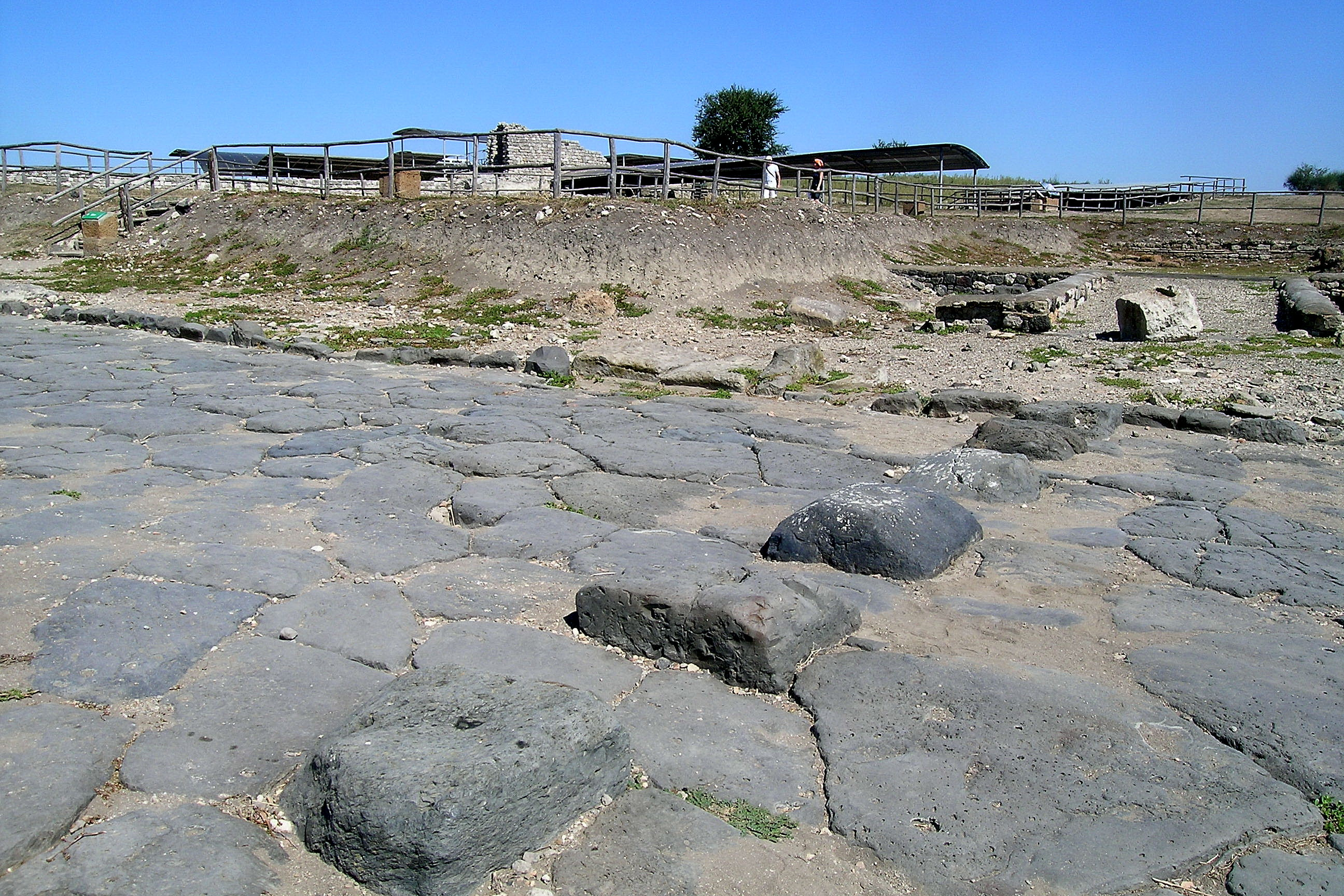 Ruins in Vulci